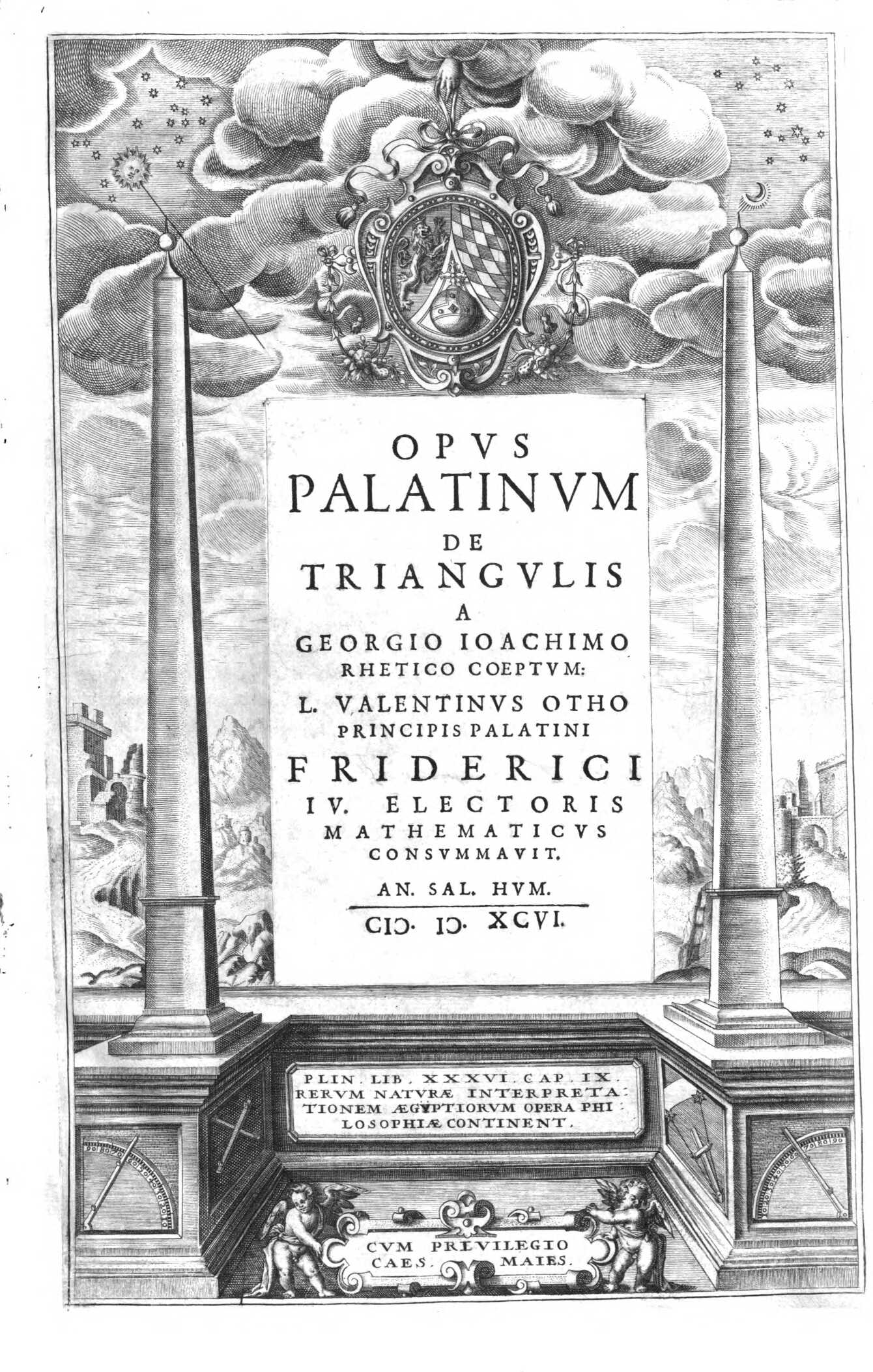 Title page of the "Opus Palatinum De Triangulis", imp. Mathaeus Harnisius, Neustadt Palatinat 1596